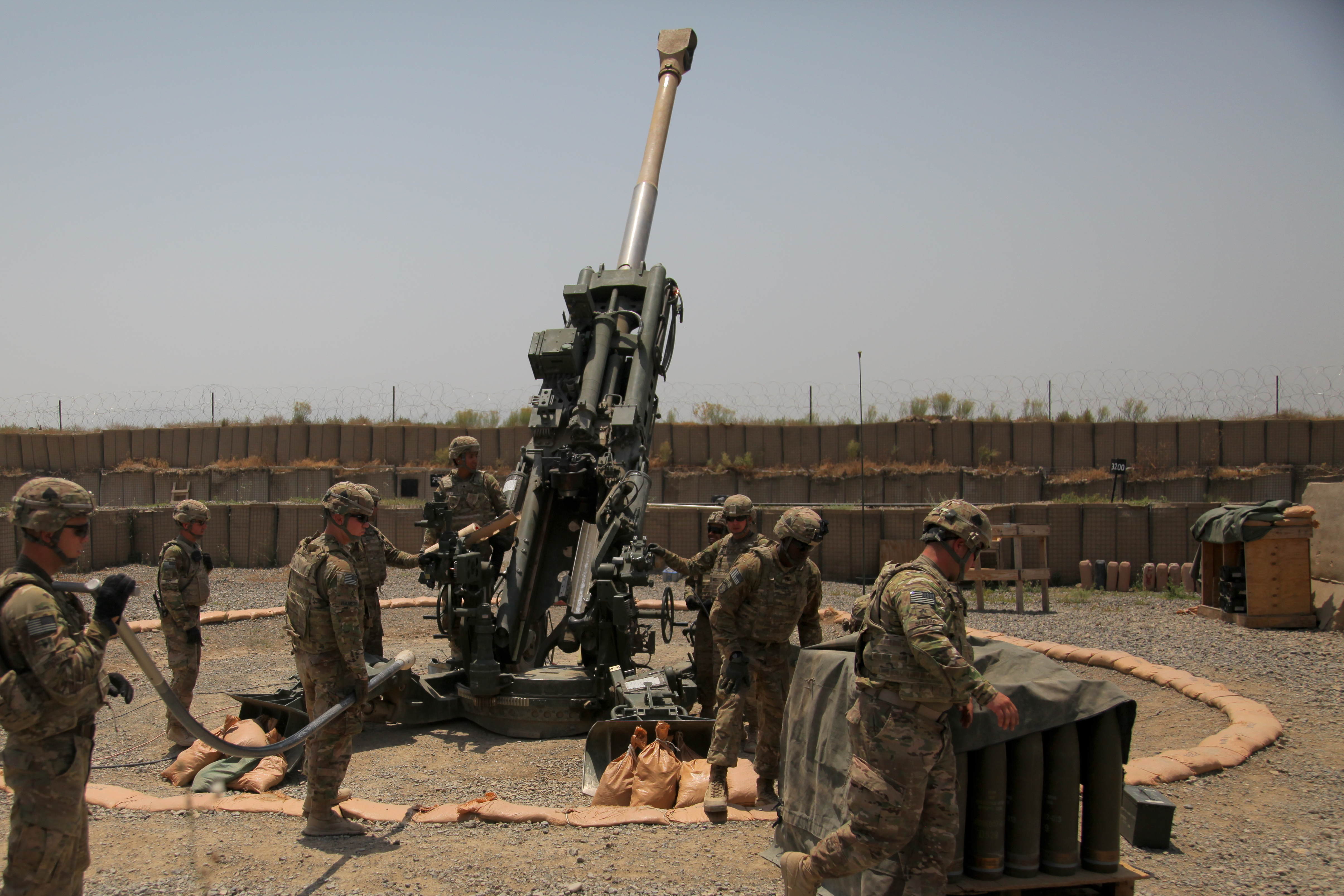 U.S. Army soldiers with 4th Battalion, 320th Field Artillery Regiment, 4th Brigade Combat Team, 101st Airborne Division, fire 155 mm rounds from an M777 towed howitzer on Forward Operating Base Salerno, Khowst province, Afghanistan, June 11, 2013. The soldiers from 4th Battalion were calibrating and testing the Precision Guidance Kit for accuracy. (U.S. Army photo by Spc. Robert Porter/Released)